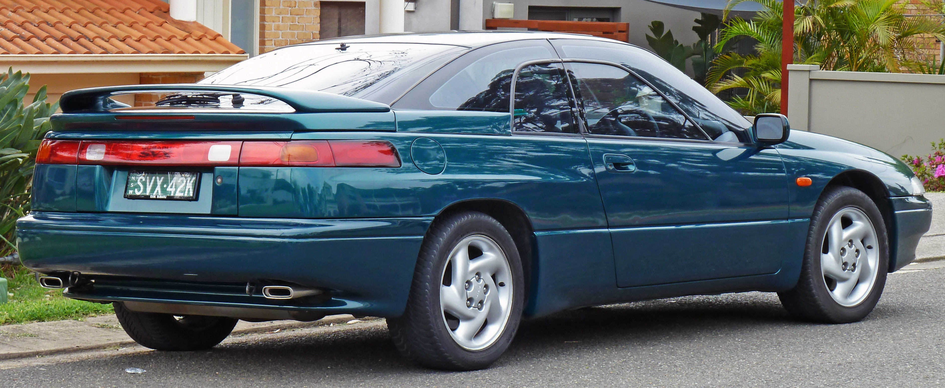 1997 Subaru SVX coupe. Photographed in Taren Point, New South Wales, Australia.